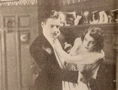 Still from the American drama film The Iron Ring (1917) with Arthur Ashley and Gerda Holmes, on page 26 of the August 11, 1917 Exhibitors Herald.